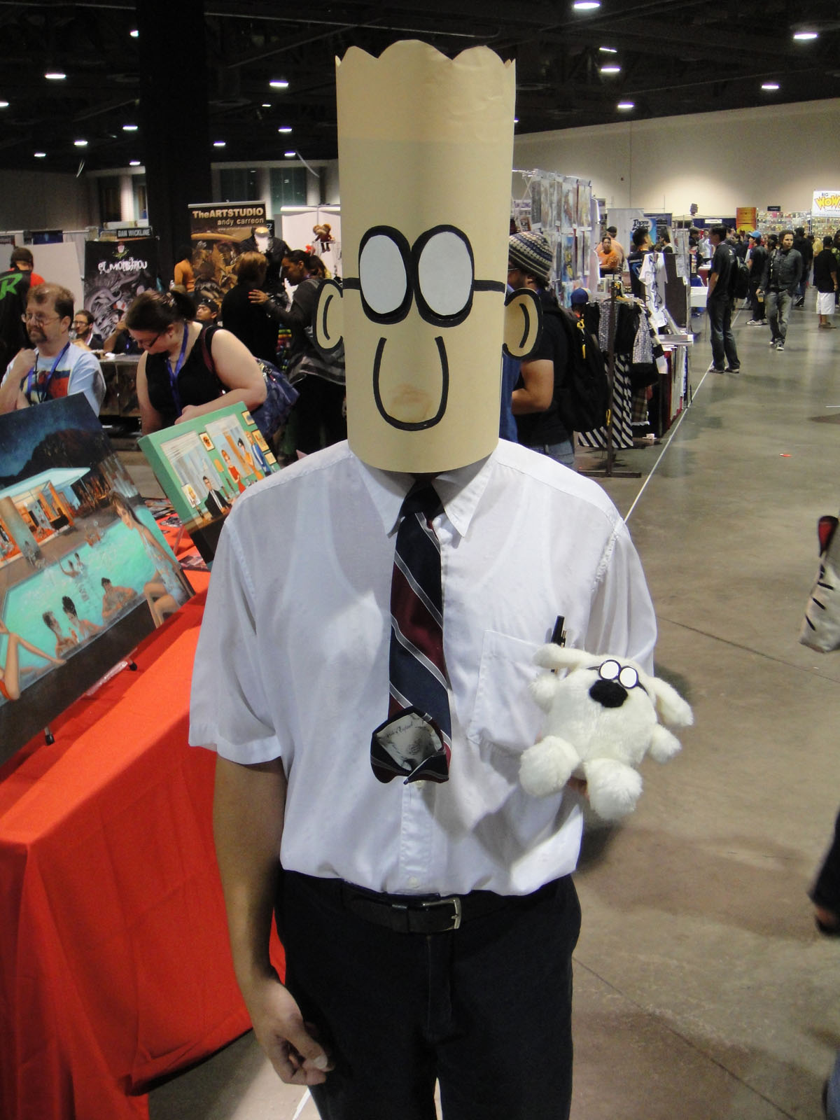 photo 2011 Pop Culture Geek taken by Doug Kline If you're interested in higher resolution versions of my images, contact me via my profile page.